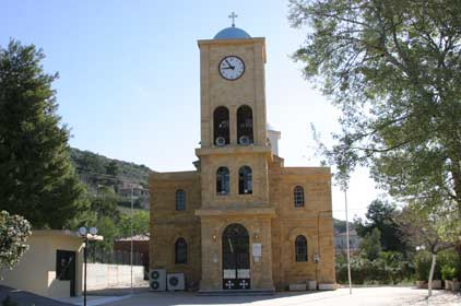 Saint George Greece in Kallithea, Boeotia, Greece